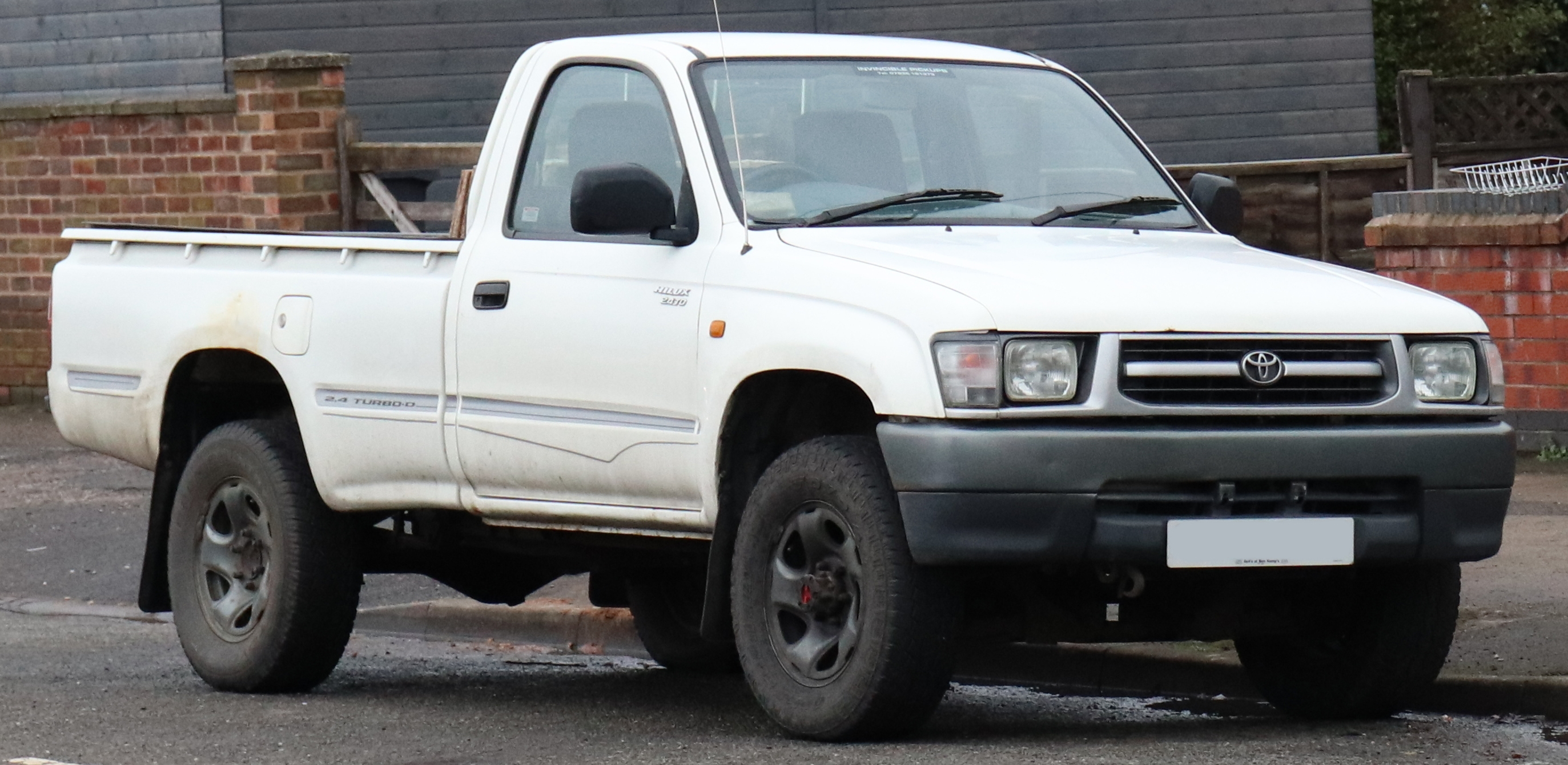 1998 Toyota HiLux Turbo 2.4 Taken in Warwick